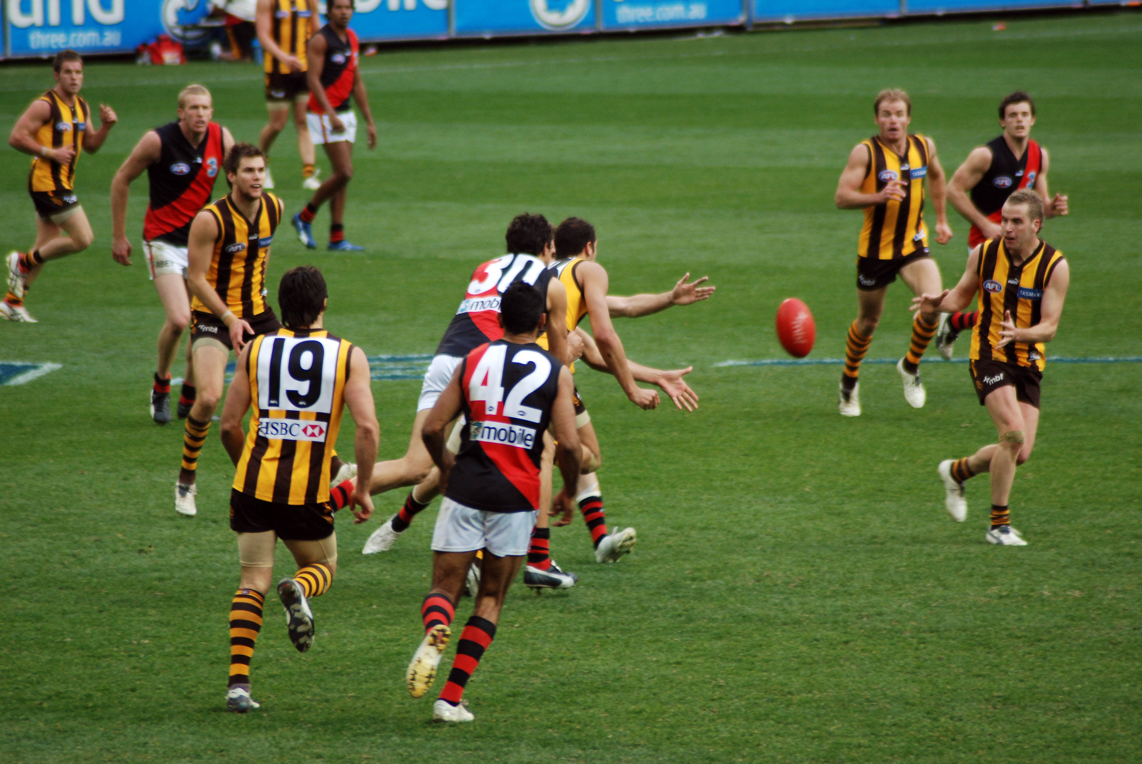 Hawthorn and Essendon players try to get their hands on the ball.